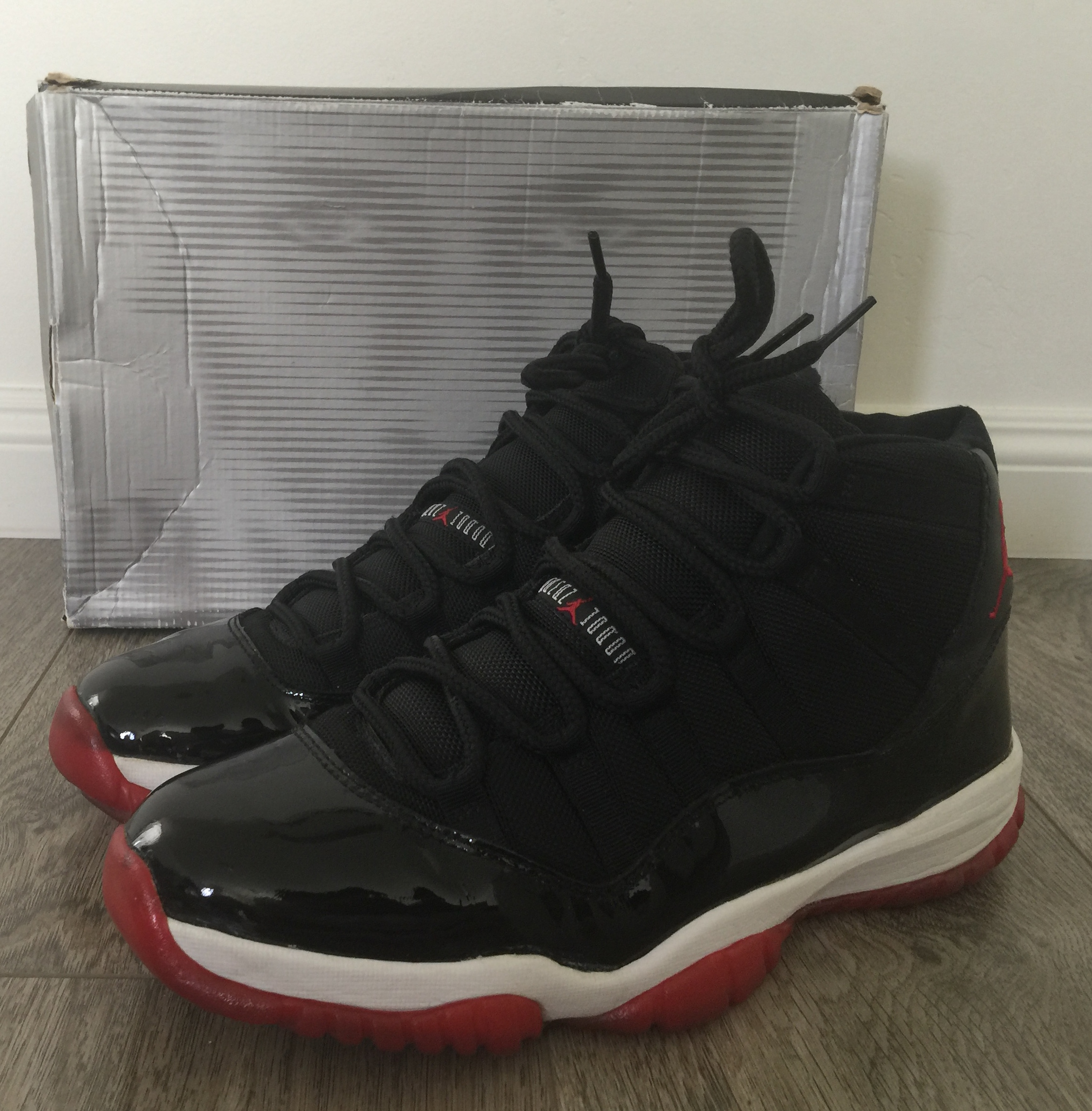 Nike Air Jordan XI